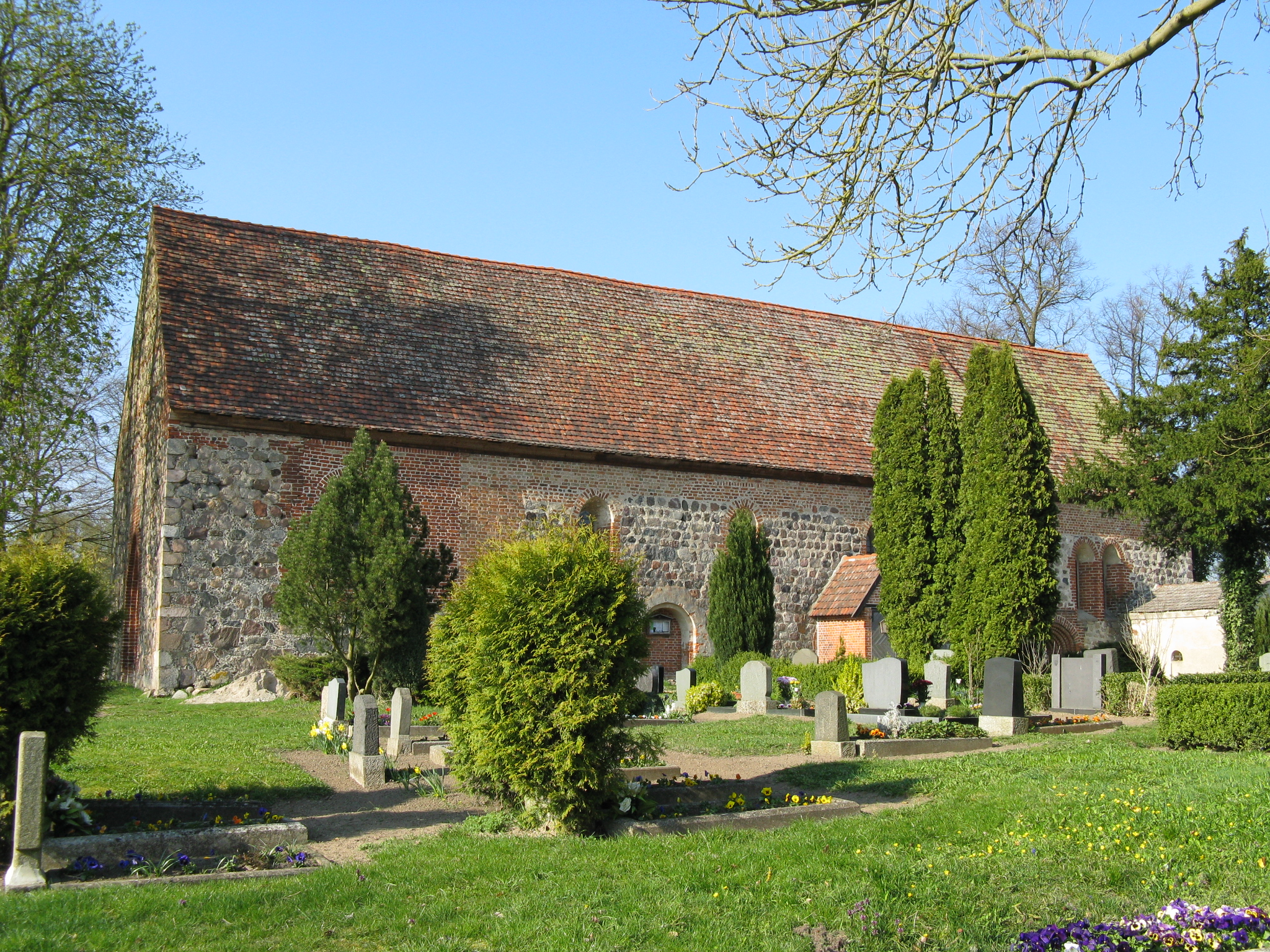 Church of Lüdershagen near Hoppenrade, district Güstrow, Mecklenburg-Vorpommern, Germany